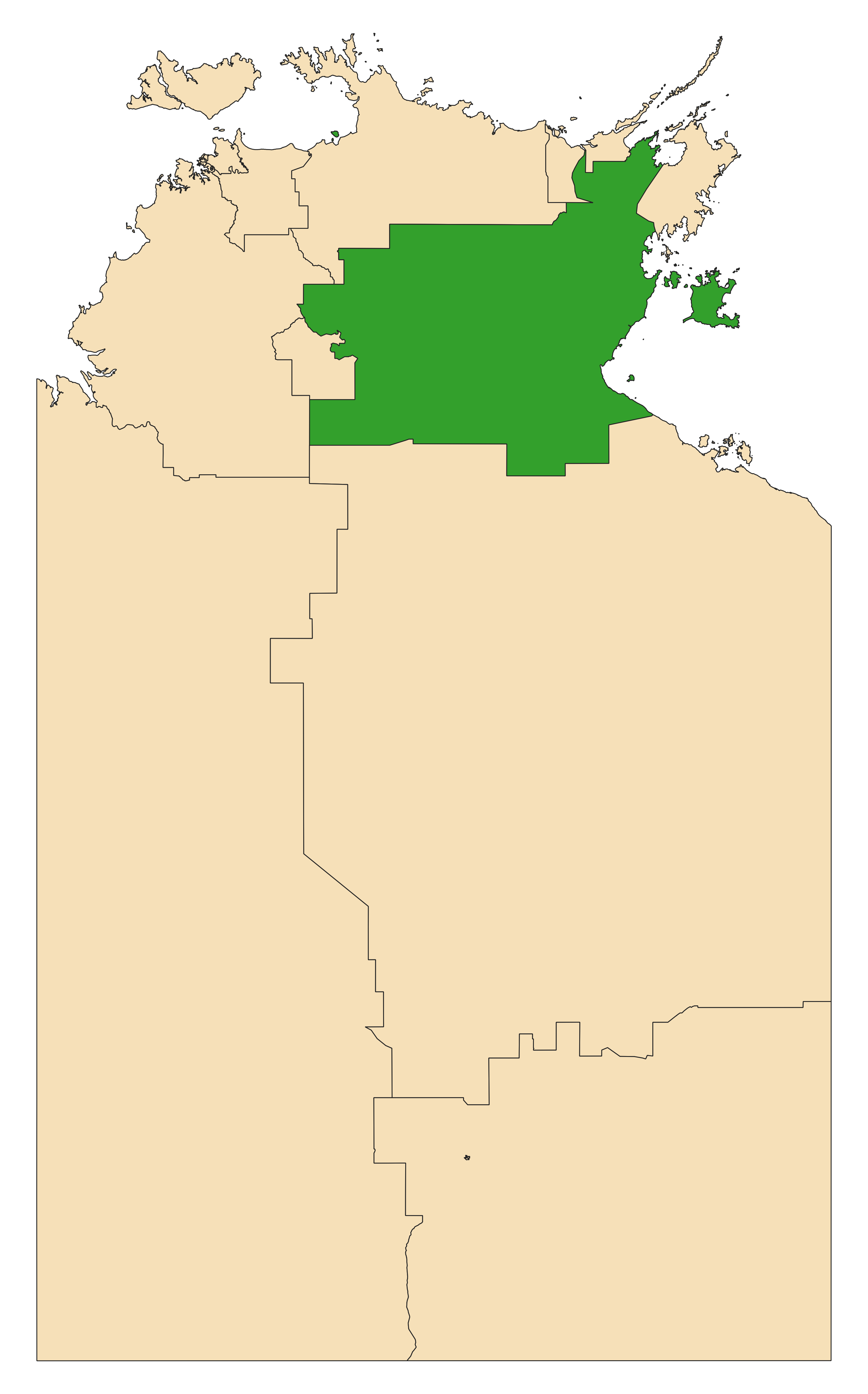 Location of the electoral division of Arnhem (dark green) in the Northern Territory at the 2020 Northern Territory election